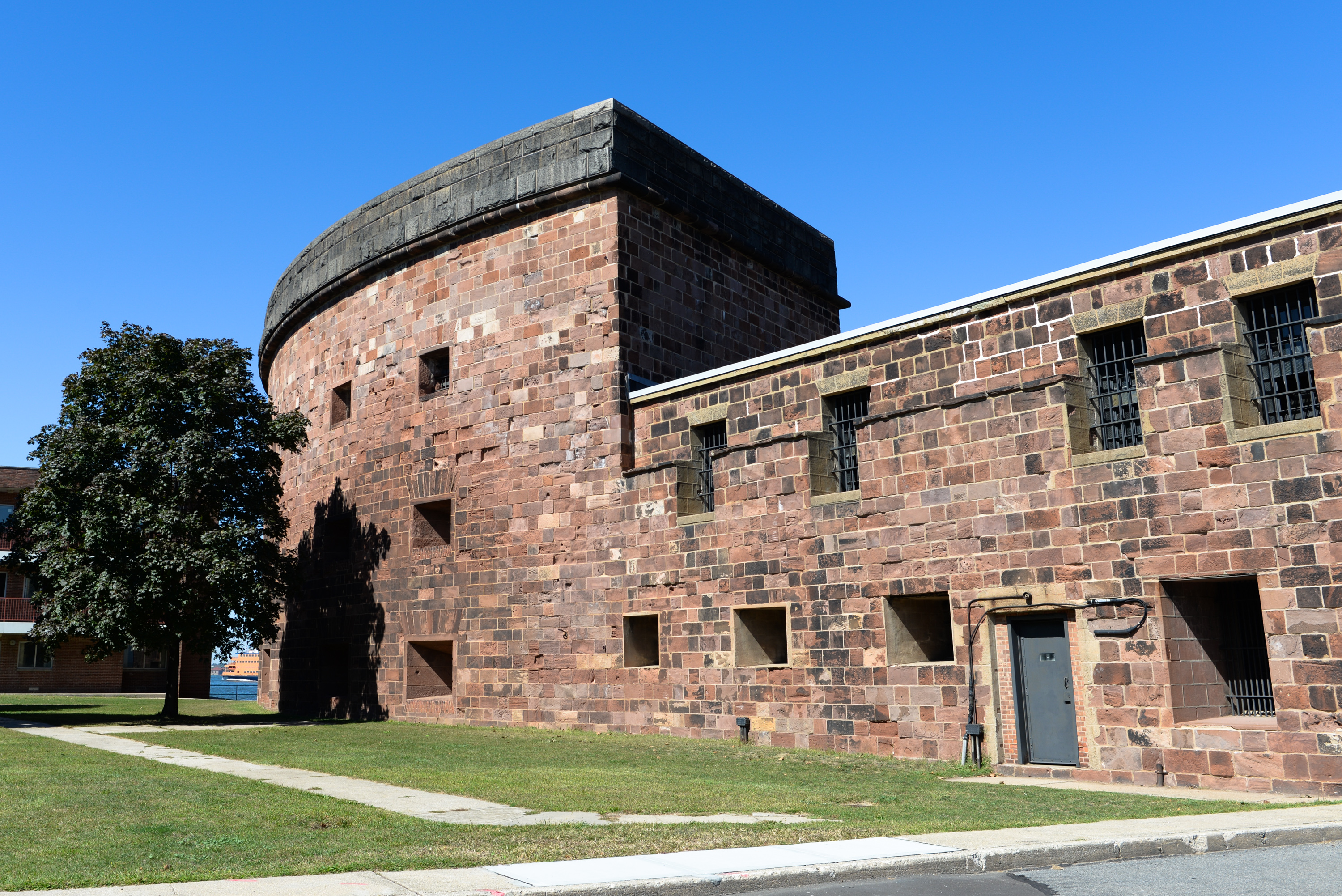 Exterior view of Castle Williams on Governors Island, New York